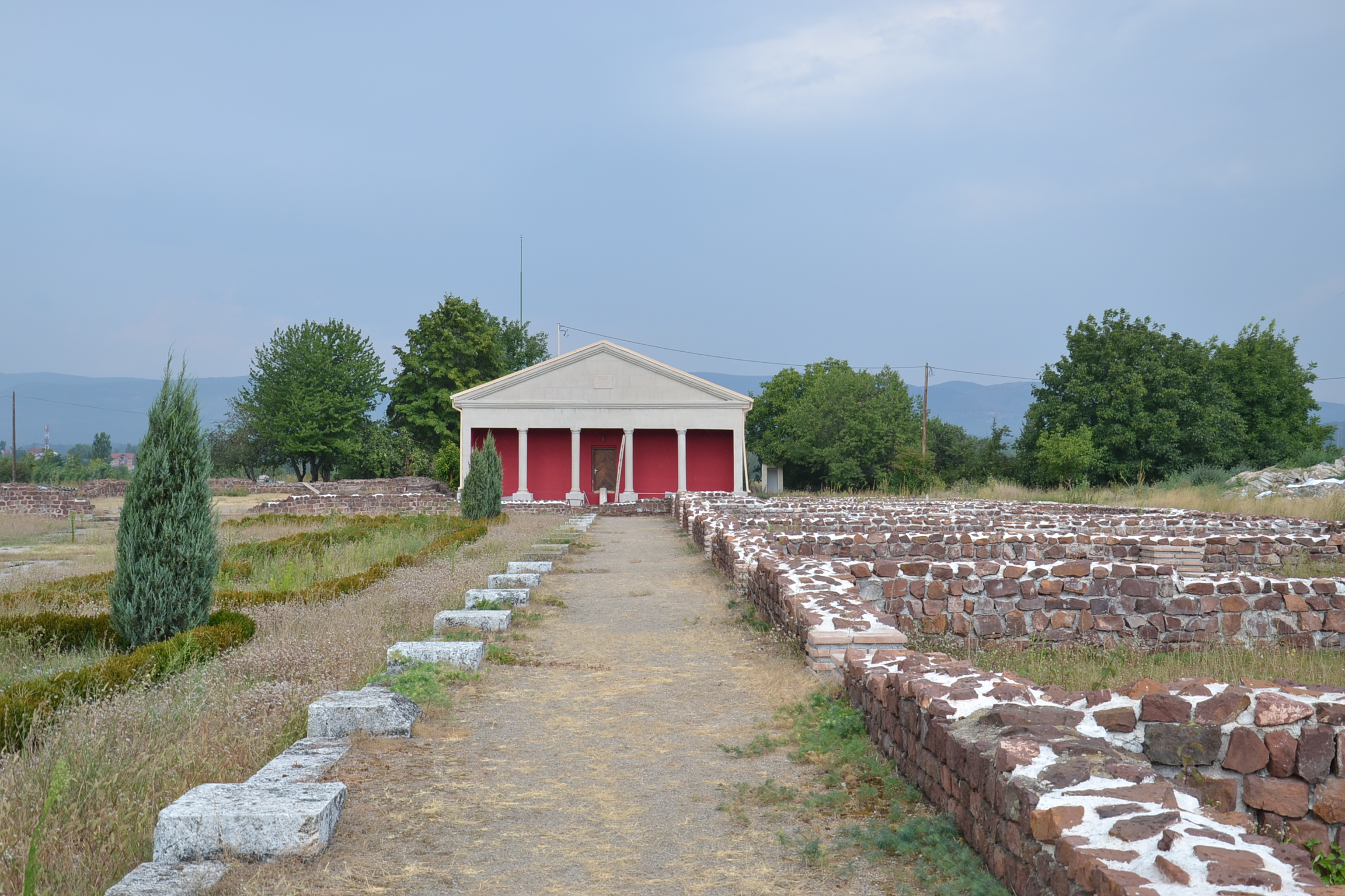 Mediana in Niš (Naissus), Serbia